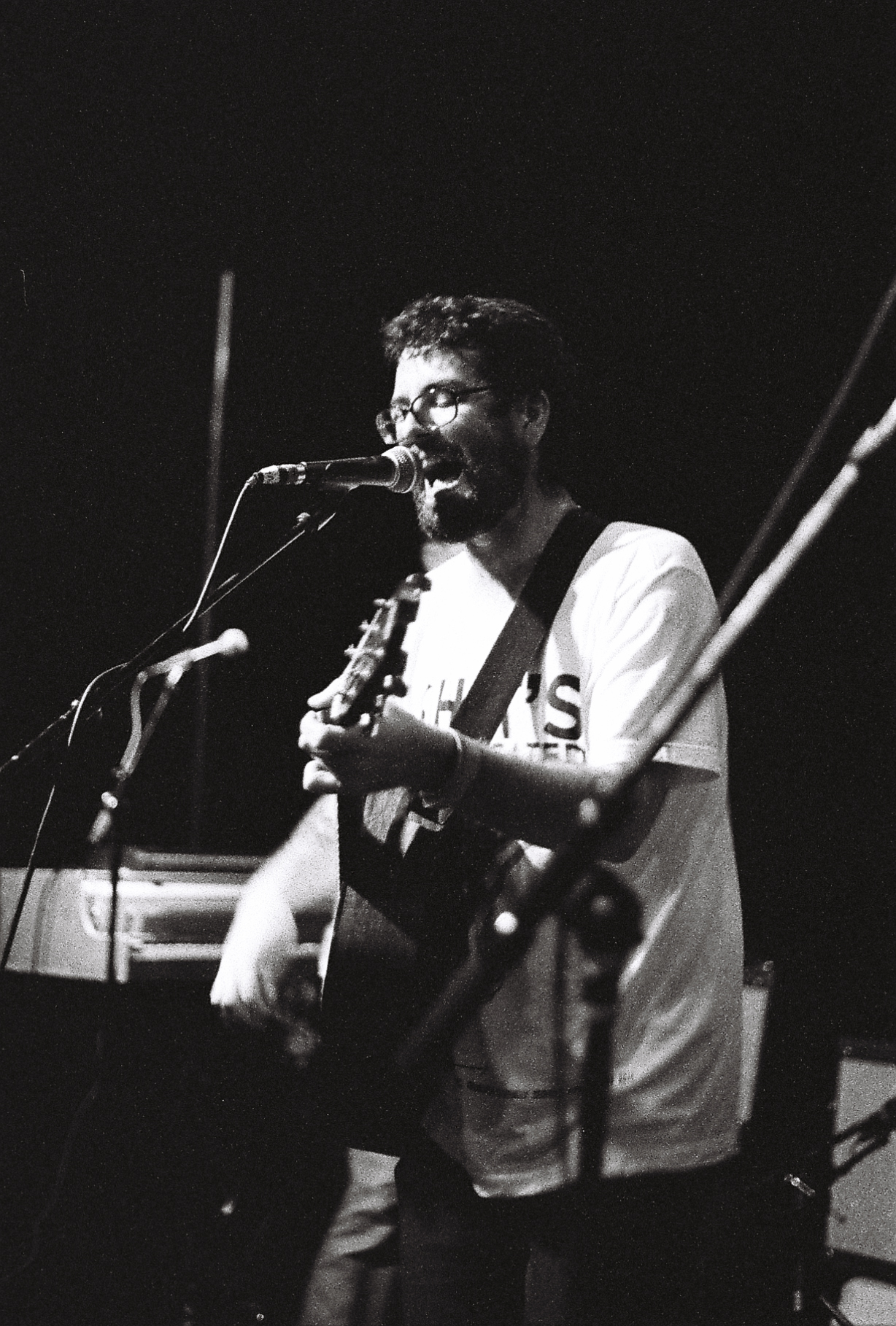 Sean Bonnette of Andrew Jackson Jihad playing guitar in Minneapolis, MN, on November 6, 2012 at the Triple Rock Social Club. Shot on Kodak T-Max p3200 film at EI 6400, if anyone is interested.